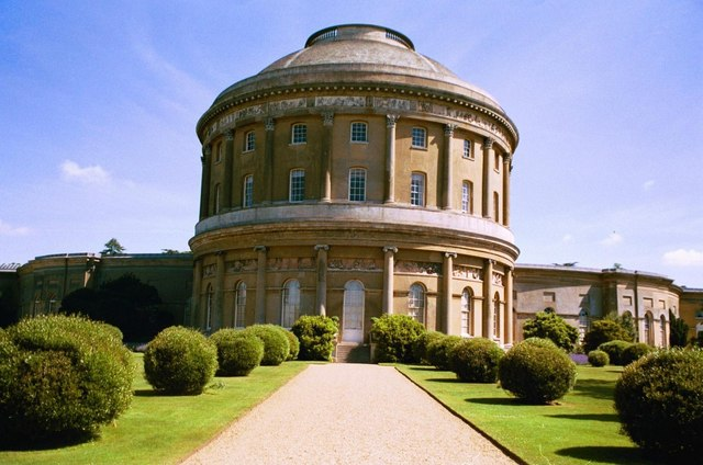 Ickworth House